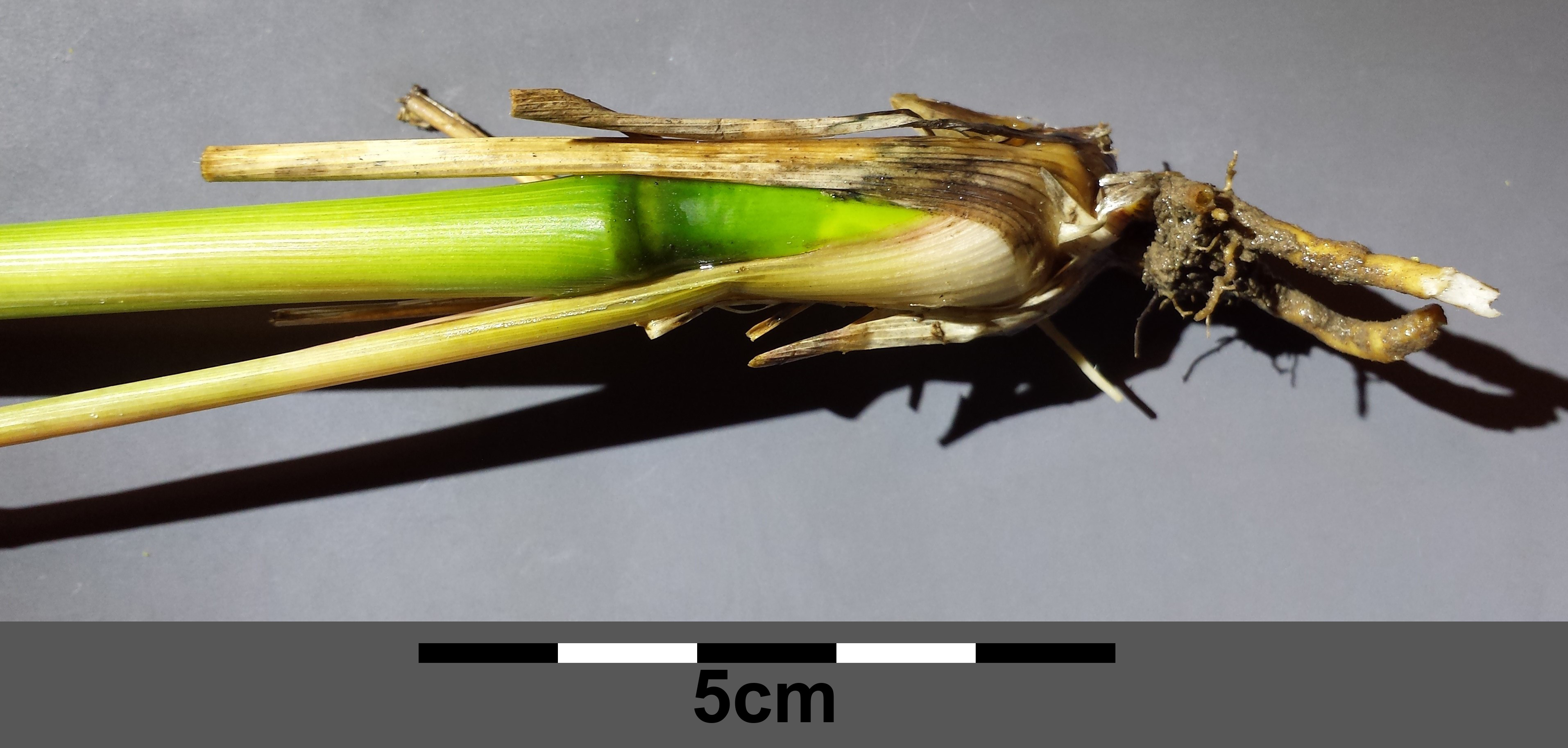 Base of stipe with single node Taxonym: Molinia arundinacea ss Fischer et al. EfÖLS 2008 ISBN 978-3-85474-187-9 Location: Steinberg near Niederhollabrunn, district Korneuburg, Lower Austria - ca. 375 m a.s.l. Habitat: semi-dry grassland